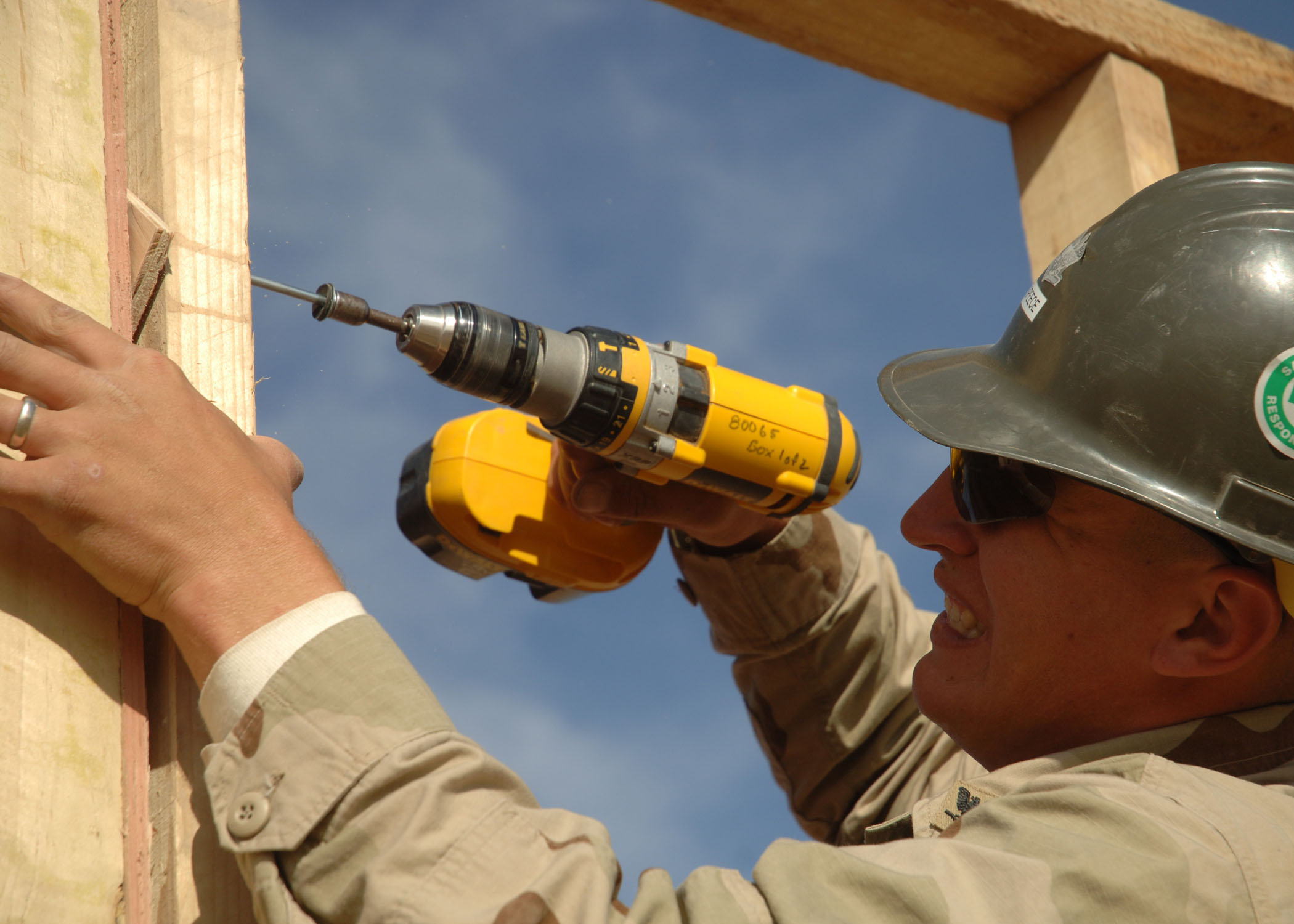 Ramadi, Iraq (Nov. 25, 2006) - Builder 3rd Class Mathew Speece of Naval Mobile Construction Battalion Seven Four (NMCB-74) secures the frame of a wall at Camp Ramadi. NMCB-74 is currently deployed to Ramadi and other locations within Southwest Asia in support of the global war on terrorism. U.S. Navy photo by Mass Communication Specialist Gregory N. Juday (RELEASED)